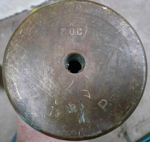 Photograph of base of QF 6 pounder Hotchkiss cartridge case, made by EOC (Elswick Ordnance Company), 1890s. Stamping P indicates it has been filled with gunPowder; F indicates Full charge. This cartridge was obtained in South Australia in 2008 and is believed to have equipped South Australian colonial forces. Used in British service for the following guns : QF 6 pounder Hotchkiss QF 6 pounder Nordenfelt